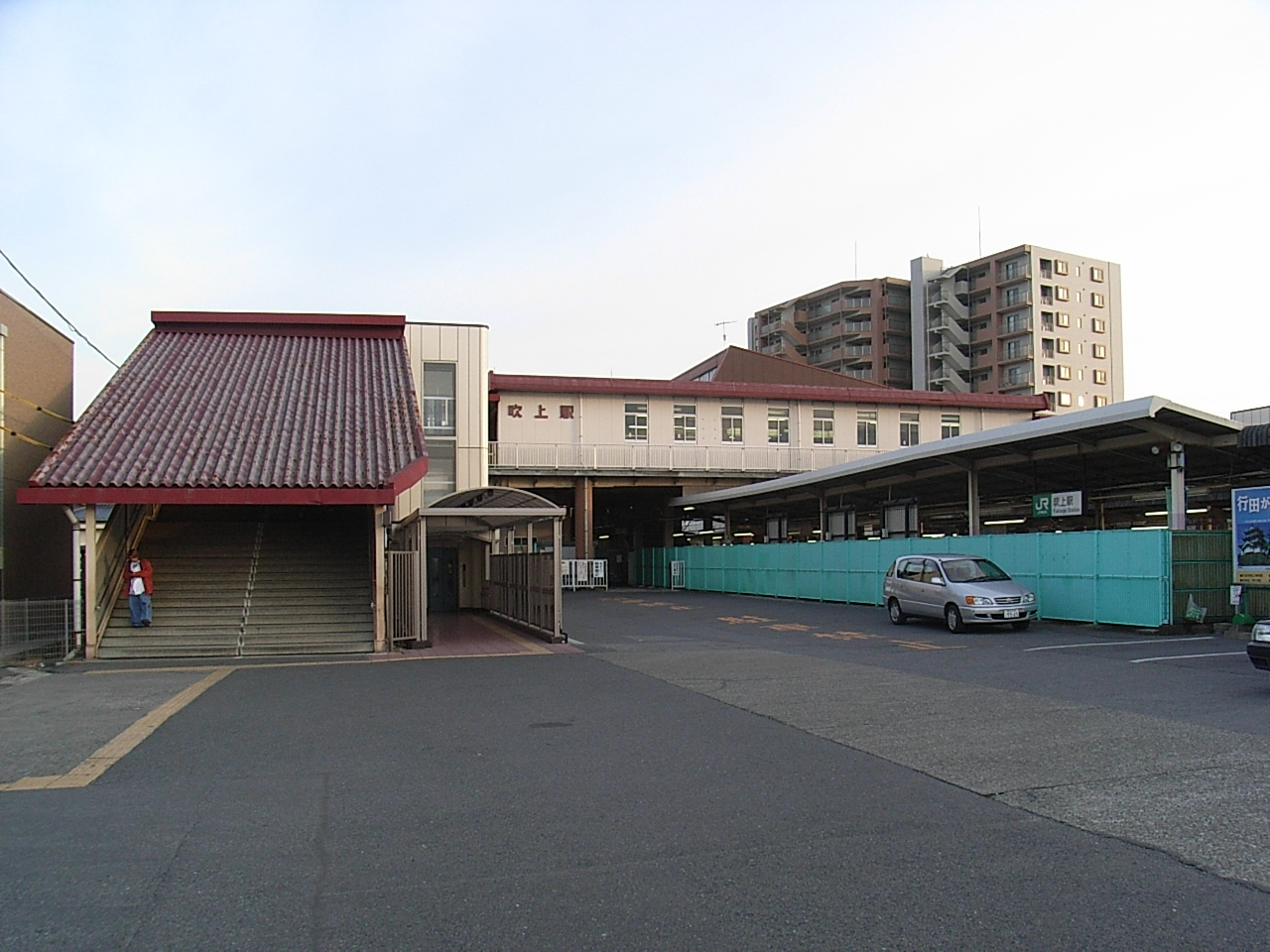 Fukiage Station (North Entrance) on JR Takasaki Line. (1-1-1,Fukiagehoncho,Konosu-shi,Saitama-ken,JAPAN)